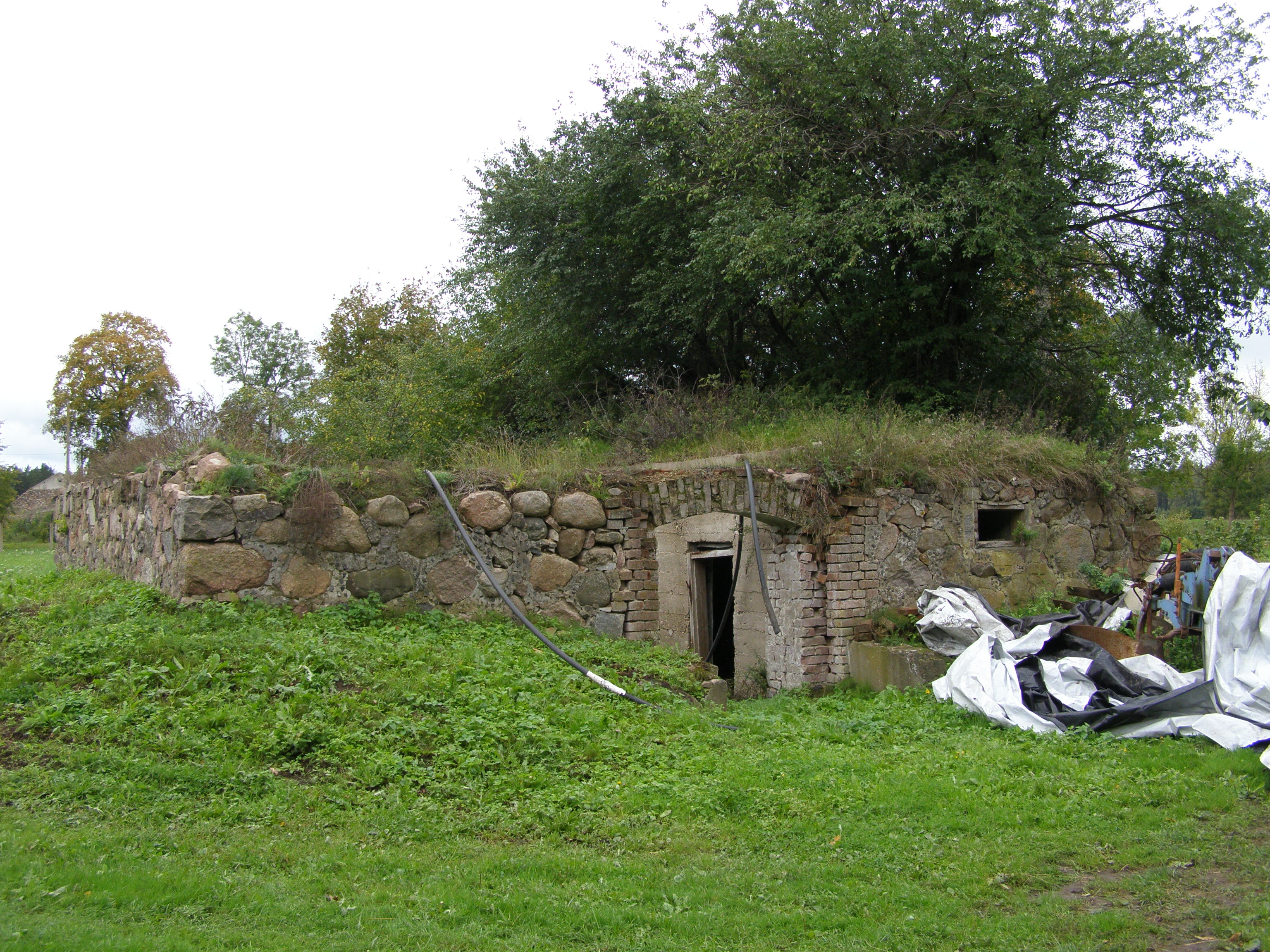 Dimitravas, Kretinga district, LithuaniaLietuvių: Dimitravo palivarko rūsio (priverčiamojo darbo stovyklos karcerio) pastatas, Kretingos rajonas, Lietuva